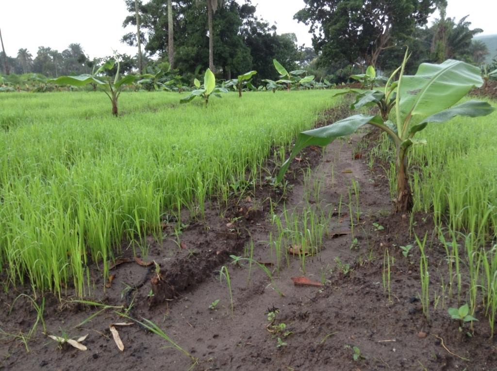 We are effective in using space and enriching the soil. Rice in a young banana field This is an image of food from Guinea